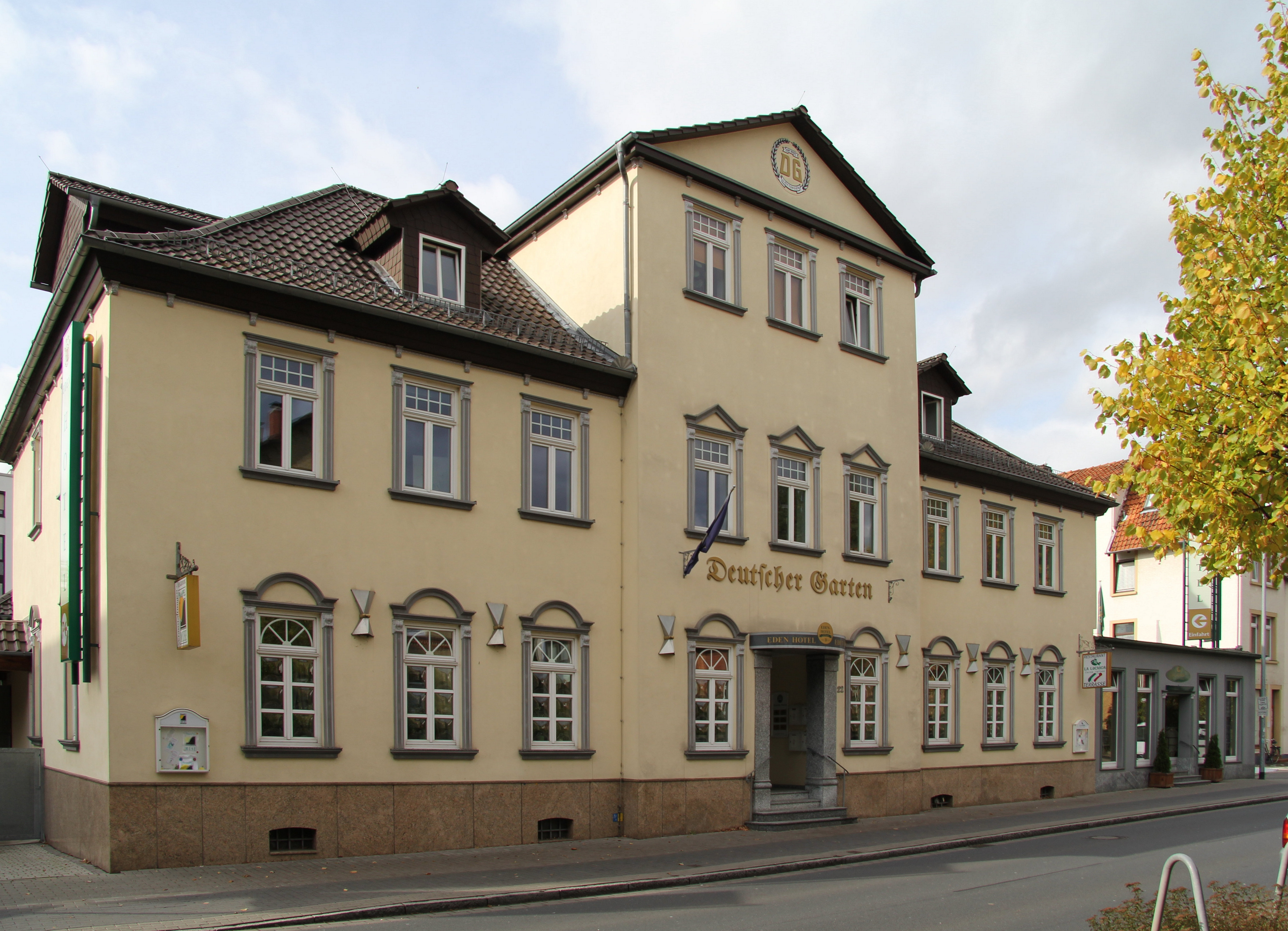 "Deutscher Garten" (also named "Deutsches Haus"), historical restaurant/pub in Göttingen/Germany, Reinhäuser Landstrasse 22